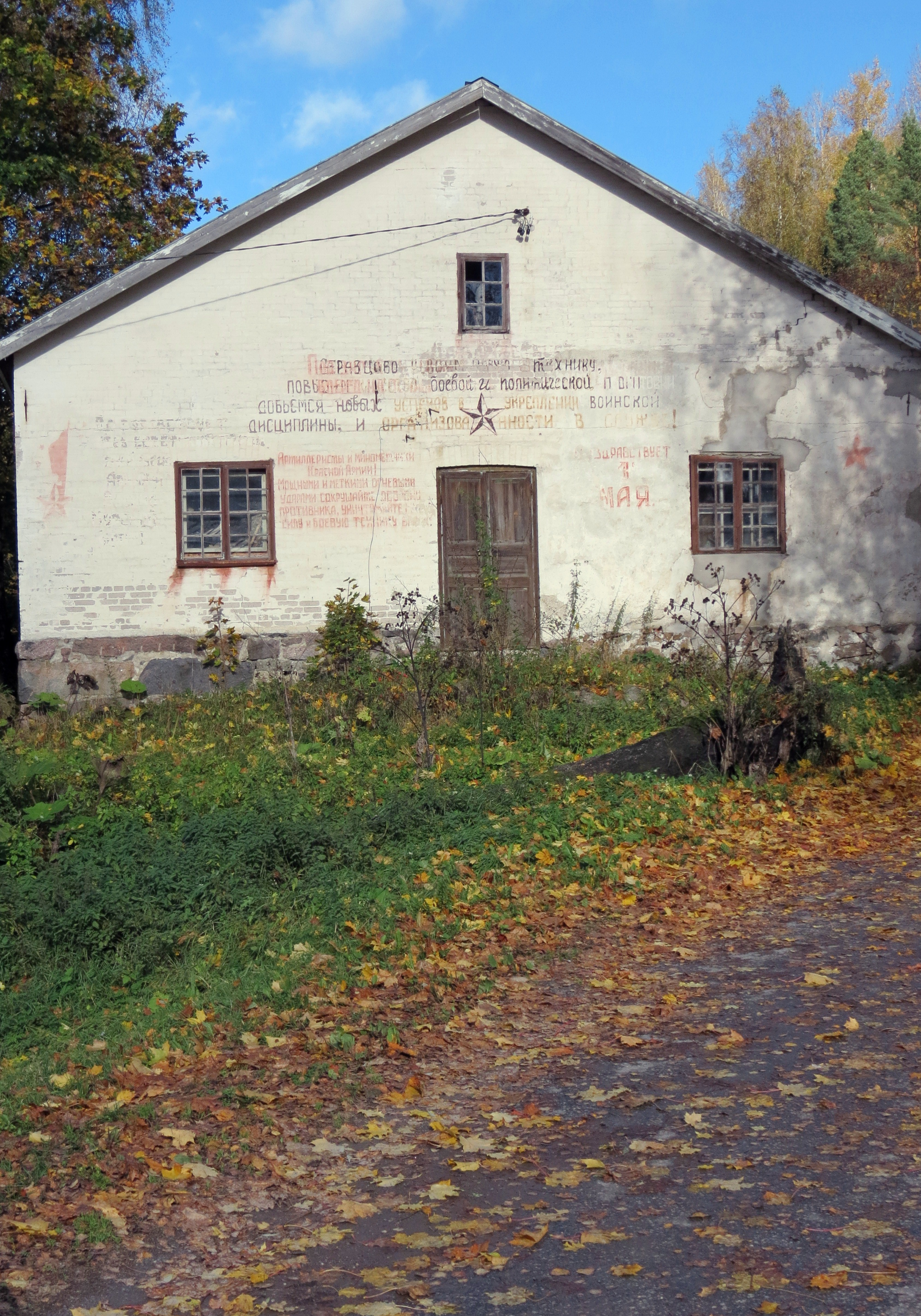 The former Soviet base in Siuntio.